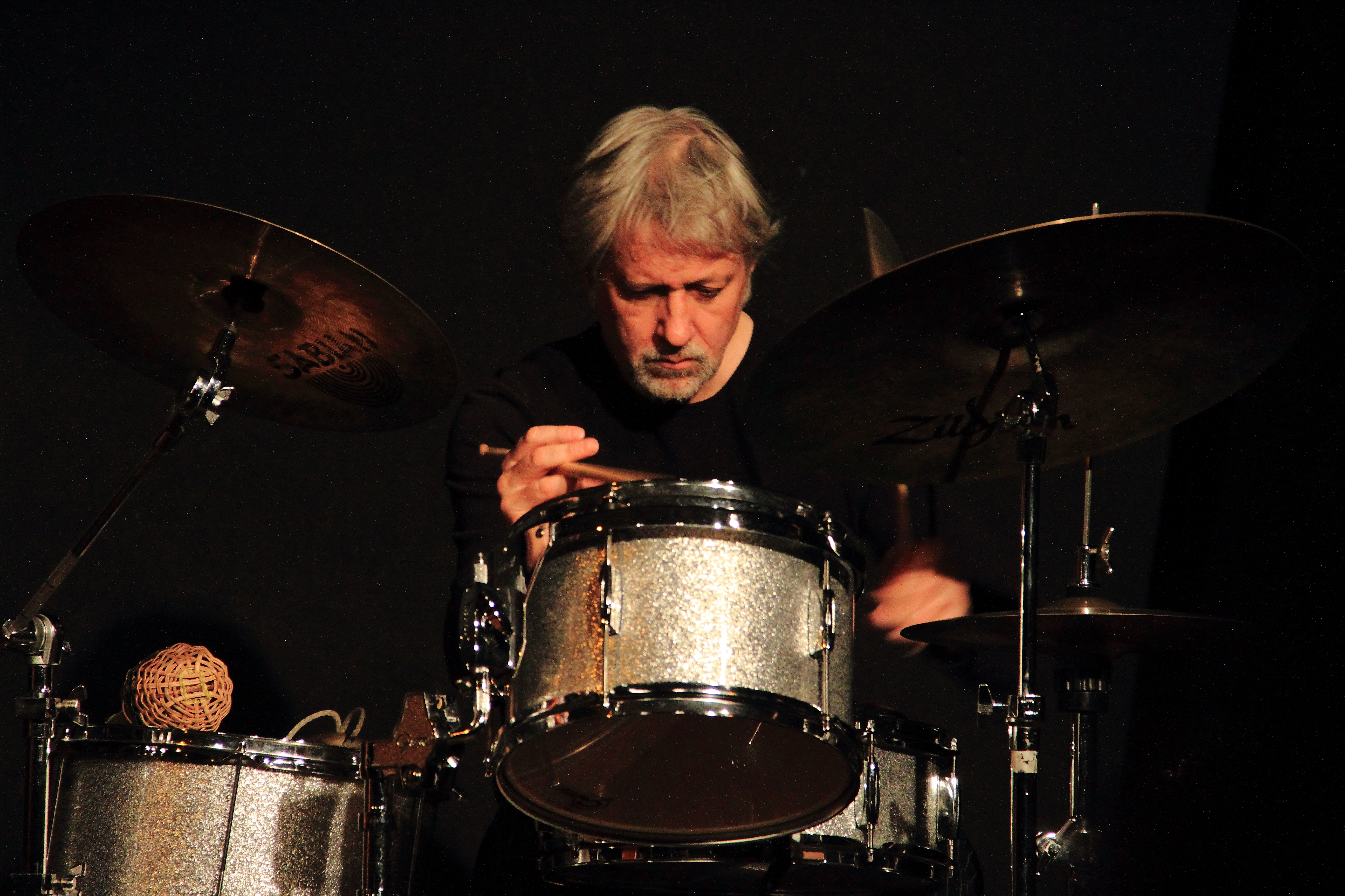 Concert of the quartet of Tony Buck (dr), Wilbert de Joode (db), Frank Gratkowski (cl, sax) & Achim Kaufmann (p) on 11.26.2014 at KULT, Niederstetten.